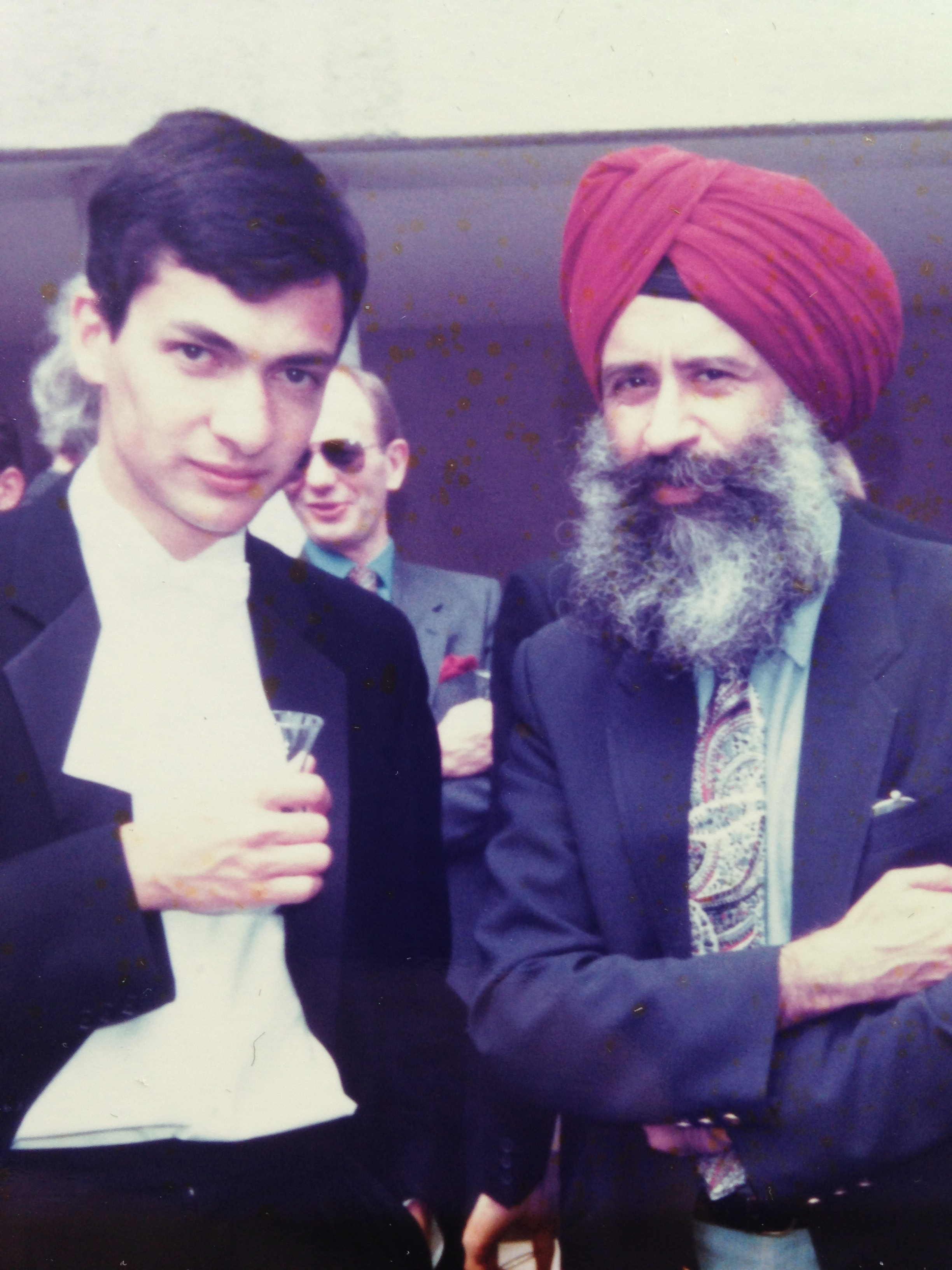 Professor Ajit Singh (economist) with one of his graduating students, Nigel Cumberland, at Queens' College University of Cambridge post-grduation tea party held for the College's Economics BA(Hons) Tripos Part II students in the summer of 1989